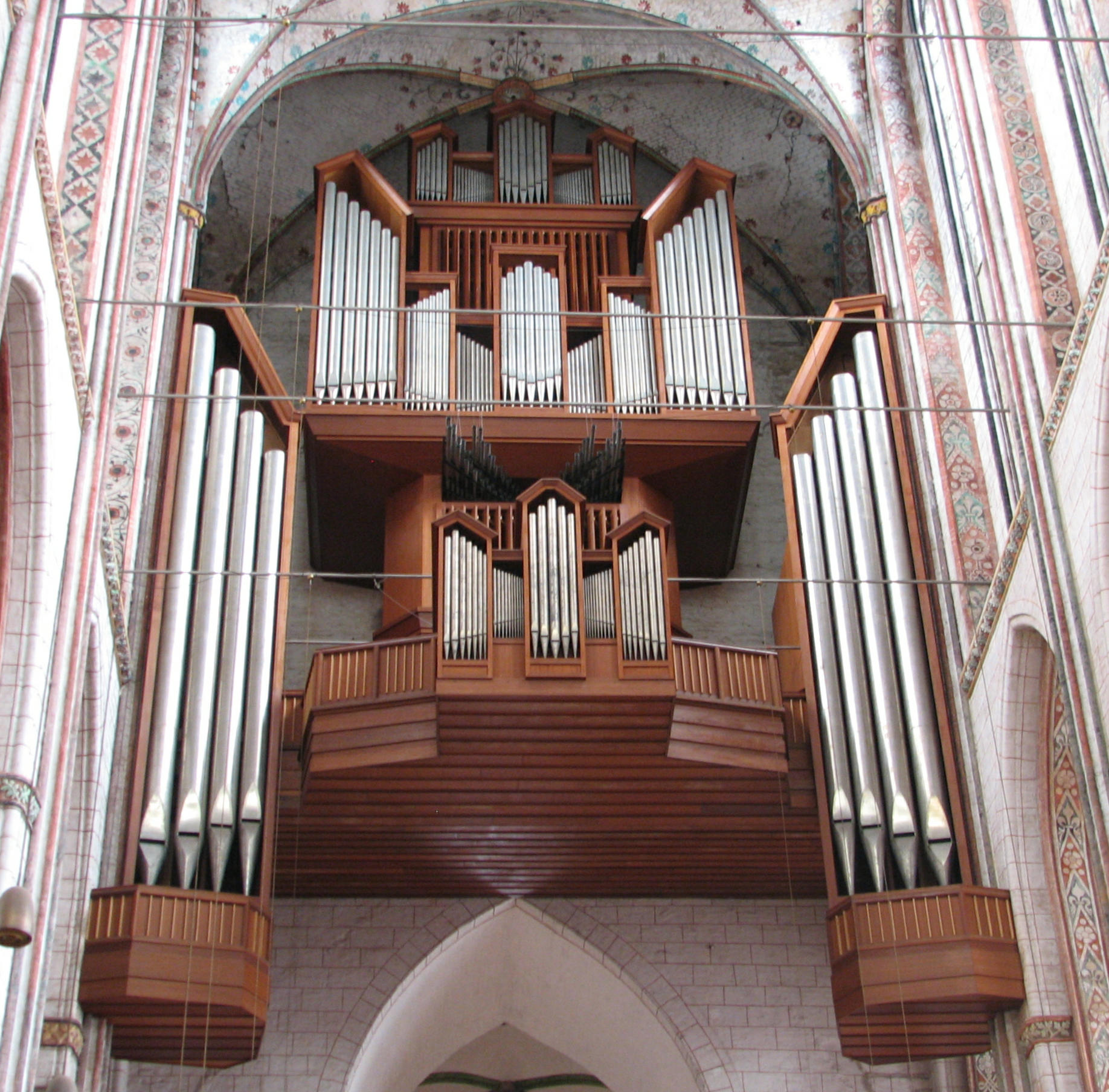 Große Orgel in der Marienkirche zu Lübeck. Originally uploaded to the German Wikipedia by Innomann and uploaded to Wikimedia Commons by Garitzko.